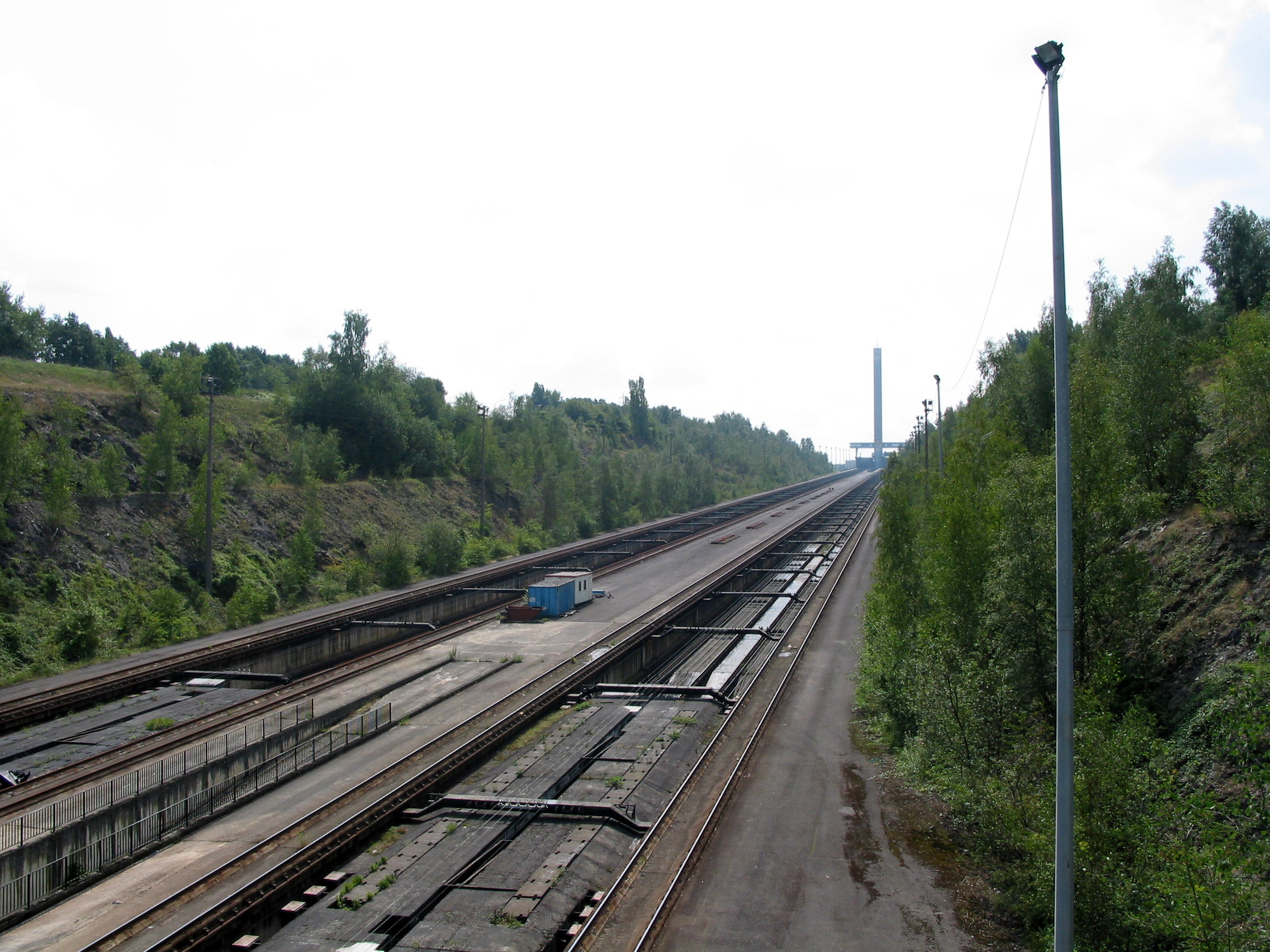 Ronquières (Belgium), the inclined plane (slope) and its two counterweights.